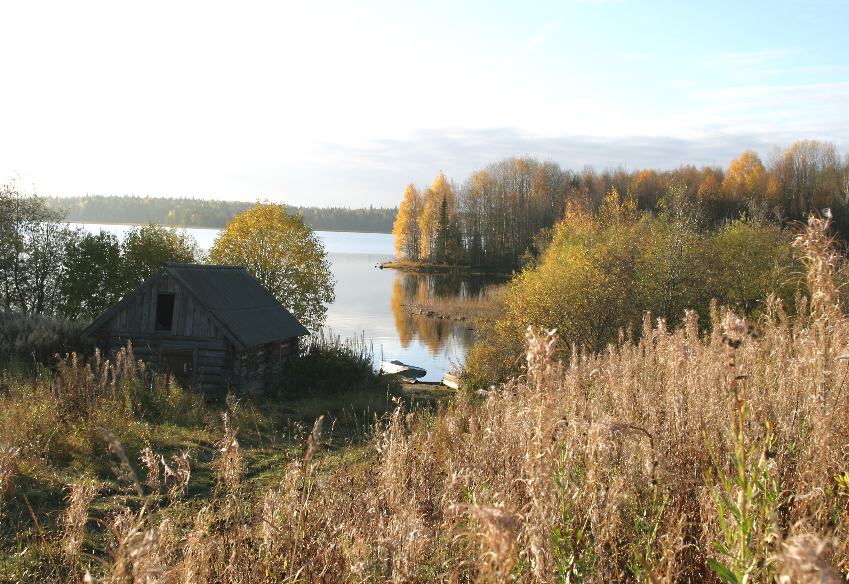 Vodlozersky National Park, Pilmas Ozero. In Autumn.